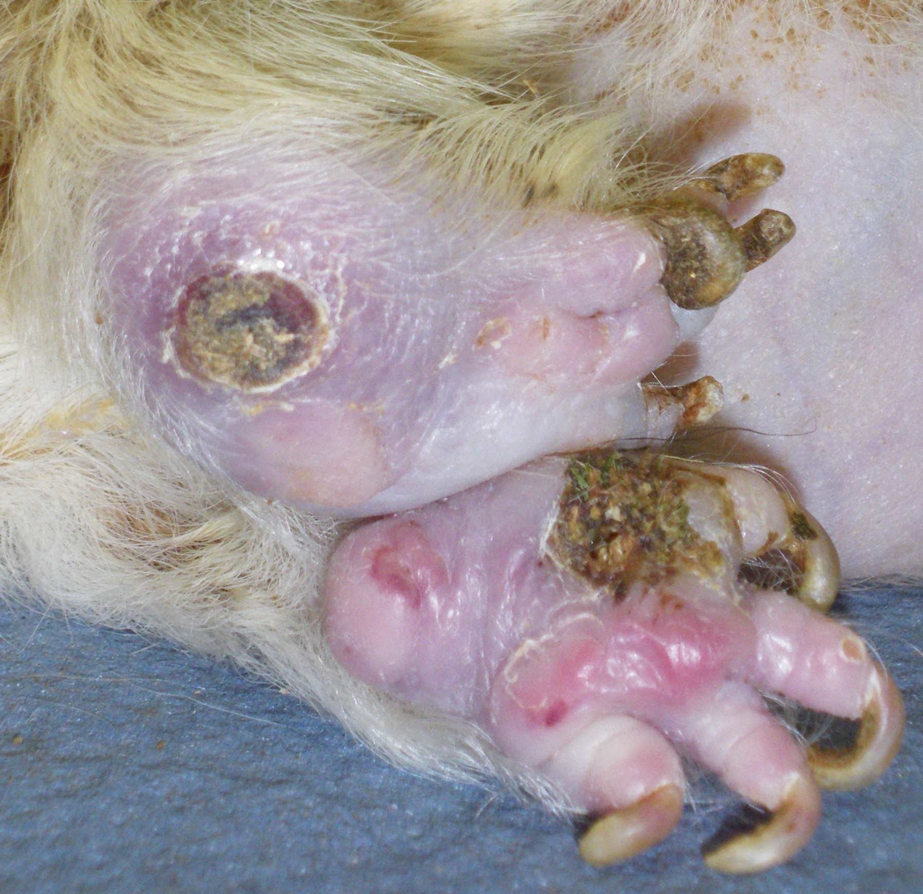 Bumblefoot in a Guinea pig. This is also known as pododermatitis.